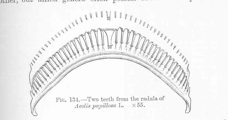 Two teeth from the radula of Aeolis papillosa L. Subject: Aeolis Tag: Mollusks